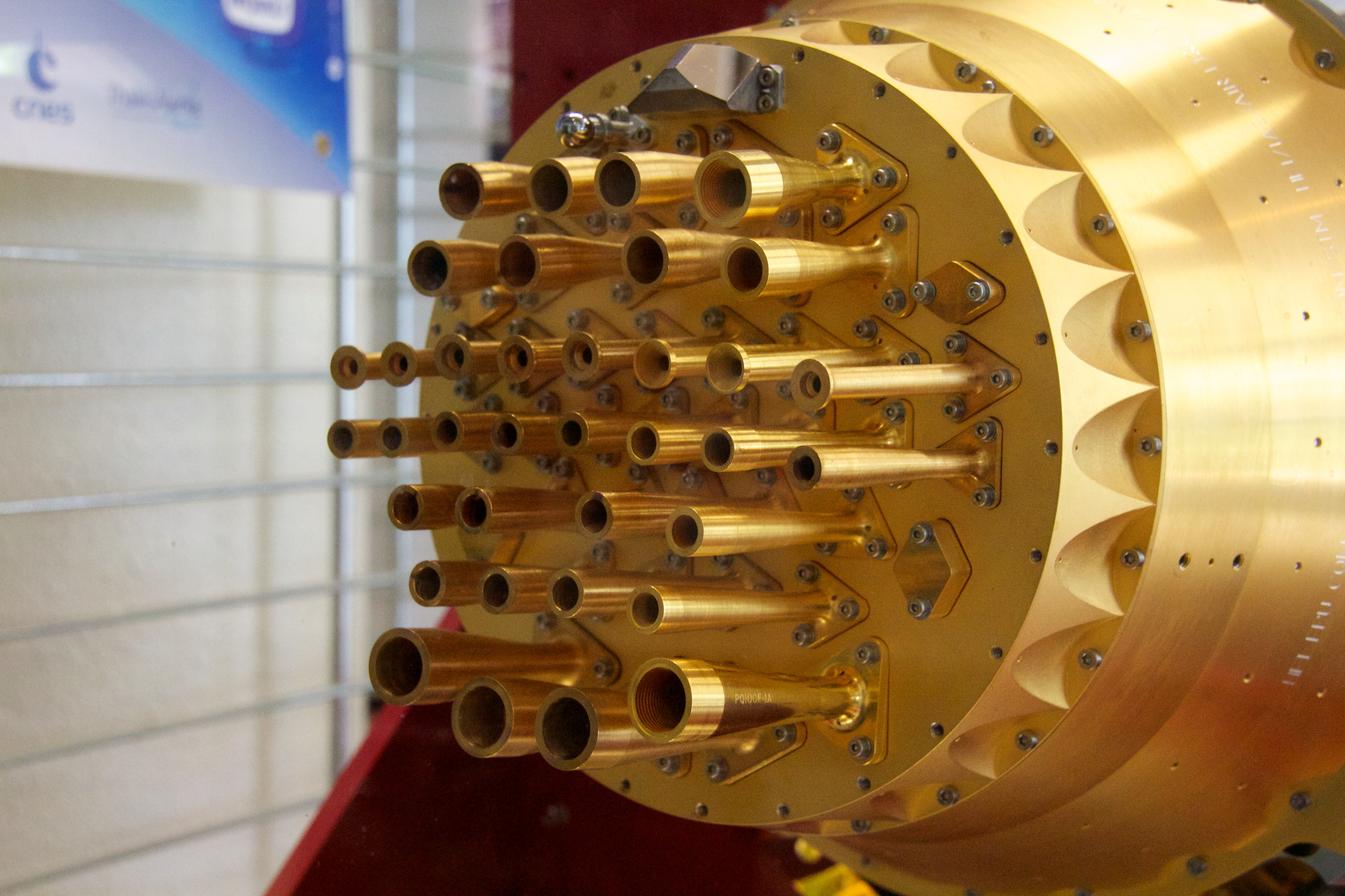 Planck HFI qualification model.